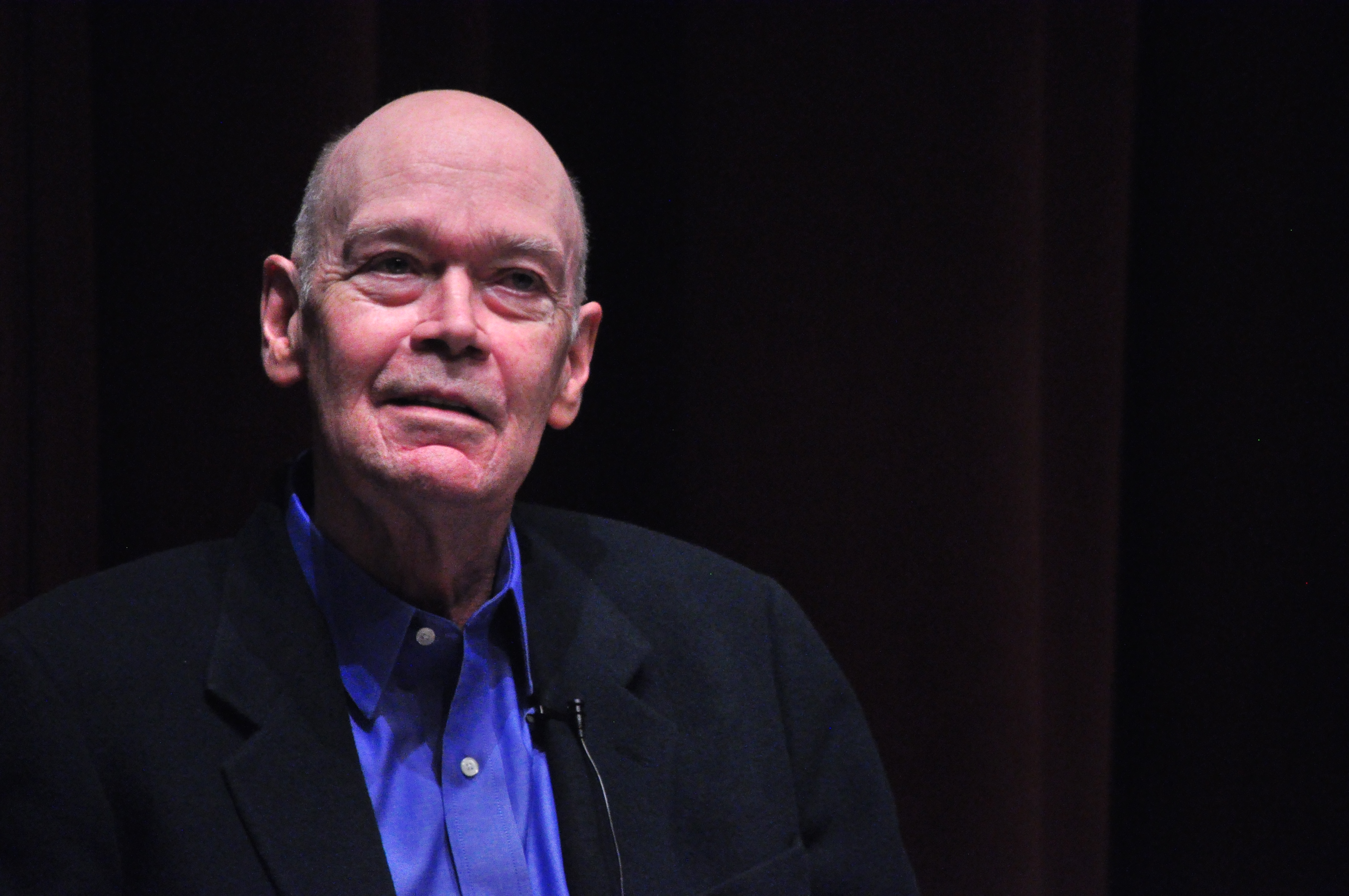 Author Jonathan Raban doing a reading at the main Seattle Public Library September 5, 2013.